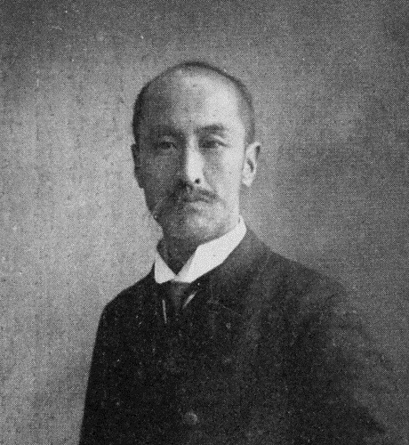 Masaharu Masuyama